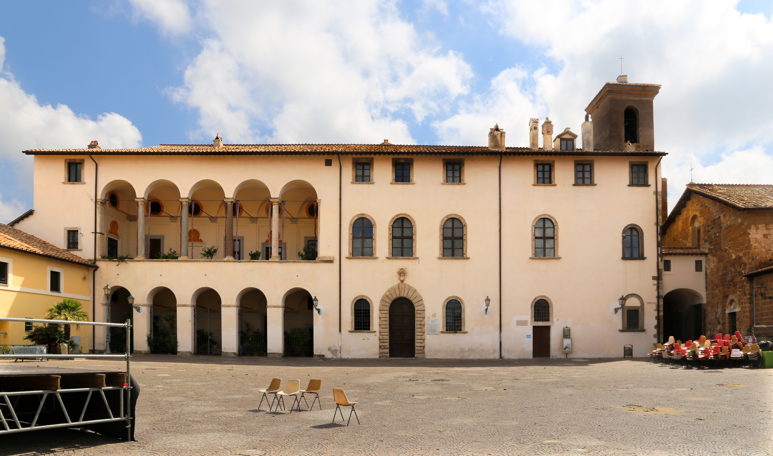 Buildings in Cerveteri